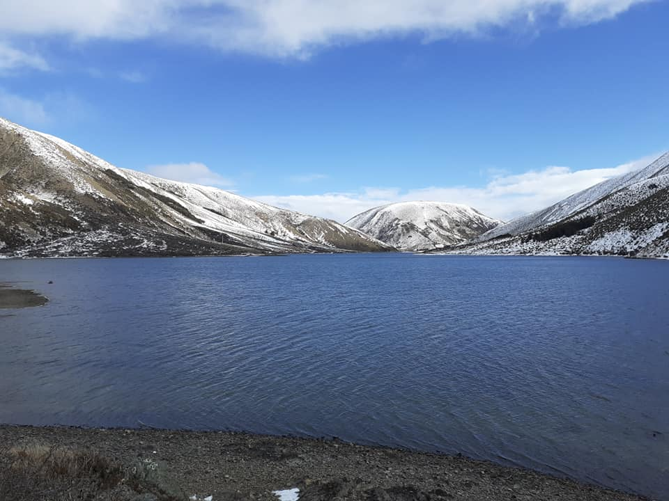 Lake Lyndon in winter, Canterbury, New Zealand